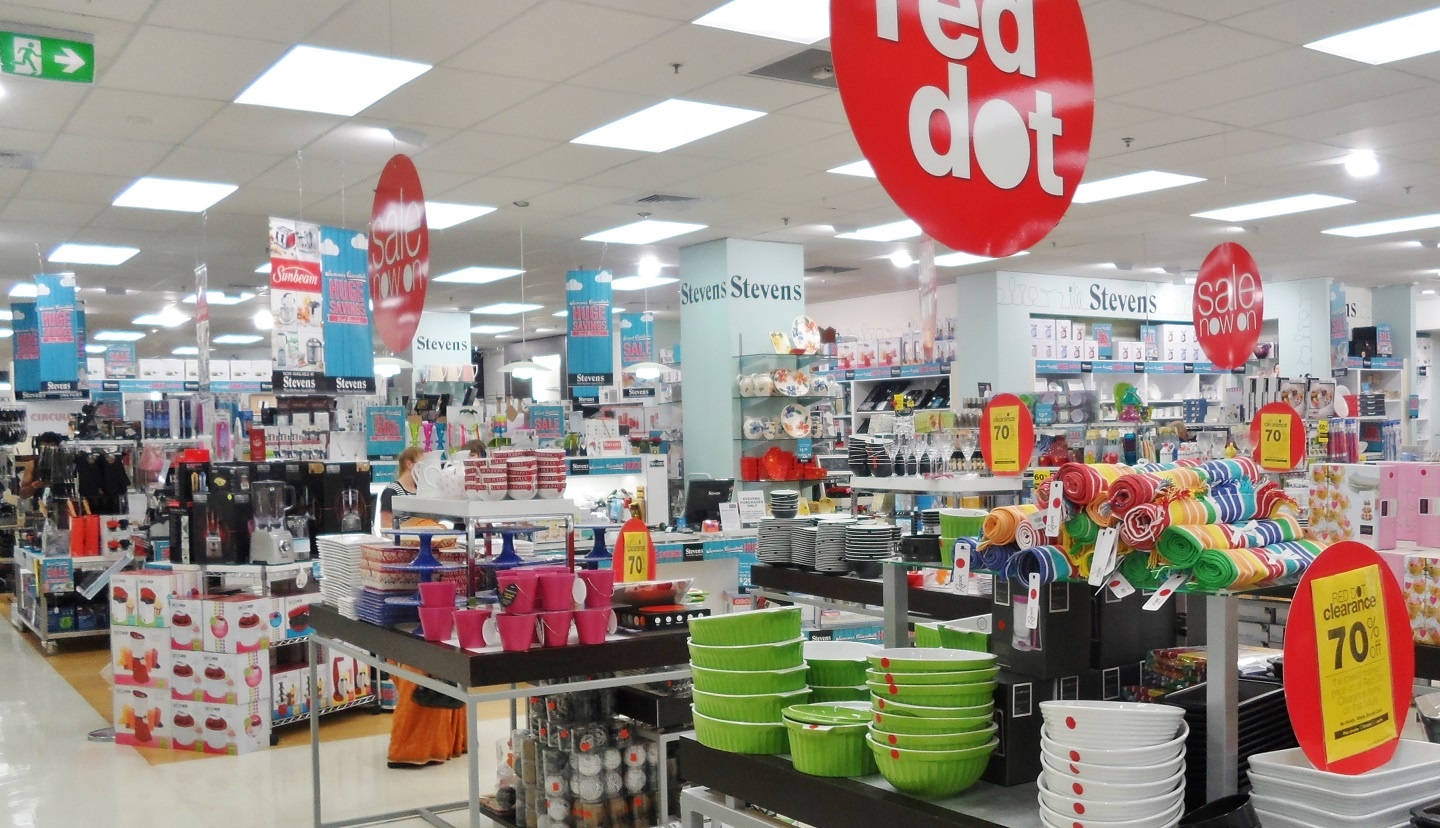 Queensgate branch of New Zealand homeware and gift retailer Stevens within department store Farmers at Westfield Queensgate in Lower Hutt, Wellington region in 2015.